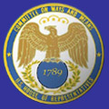 Ways and Means Committee, US Legislative Branch